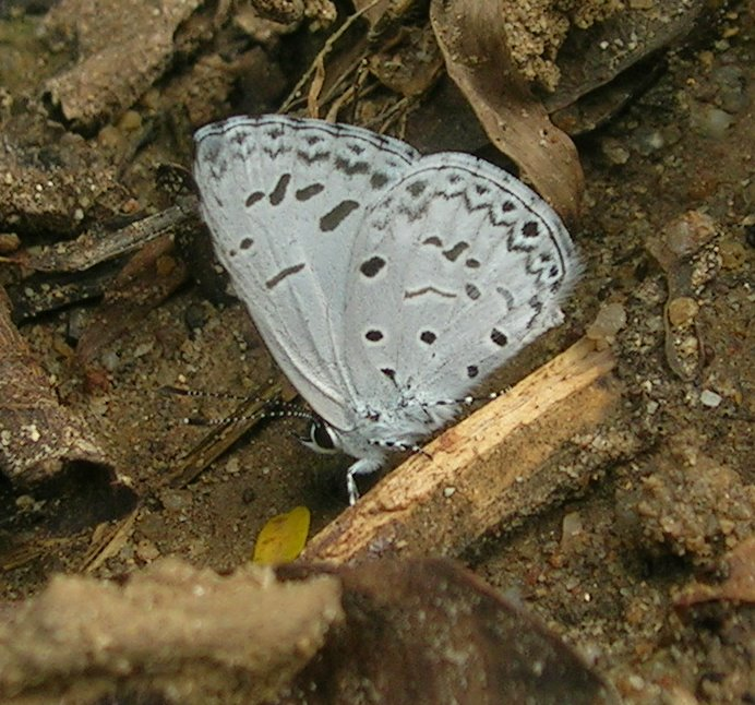 Acytolepis puspa, Lycaenidae. Javadi Hills, Tamil Nadu